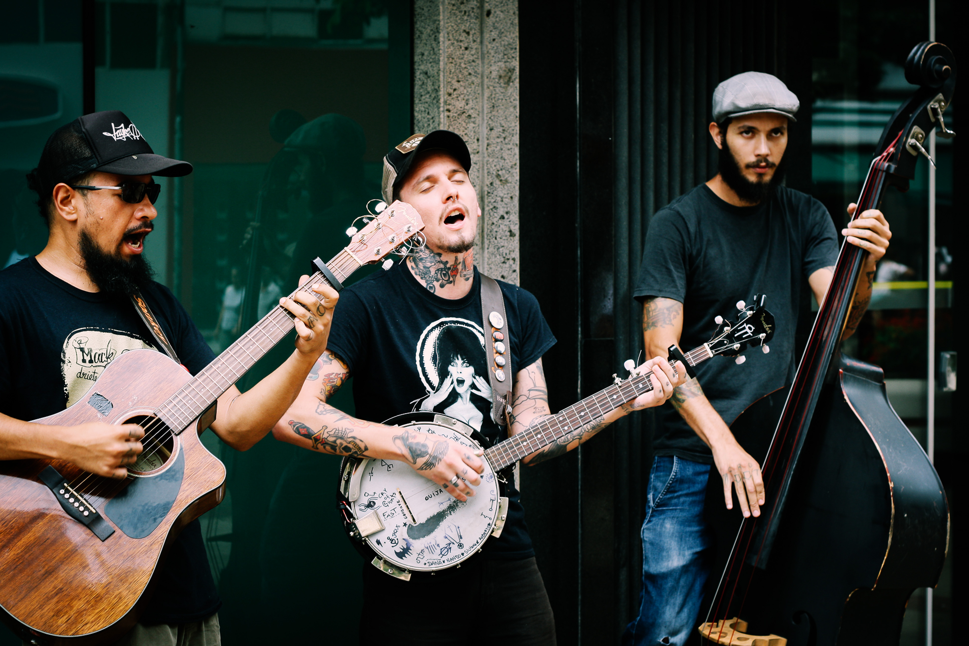 Matheus Ferrero 2017